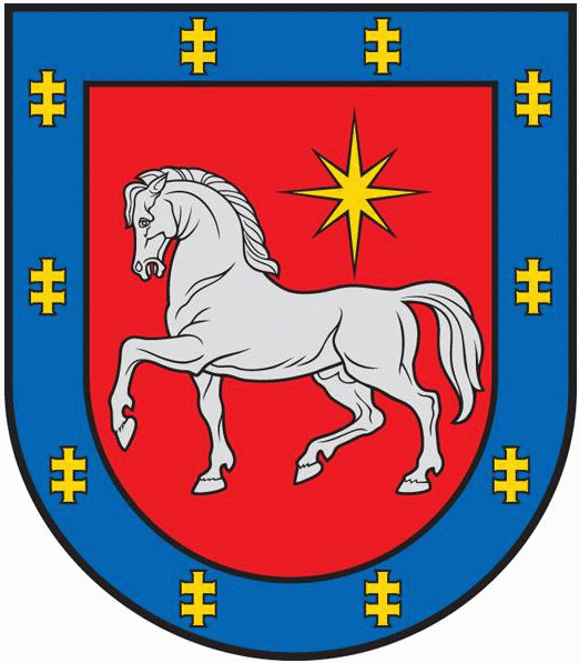 Coat of arms of Utena County, Lithuania